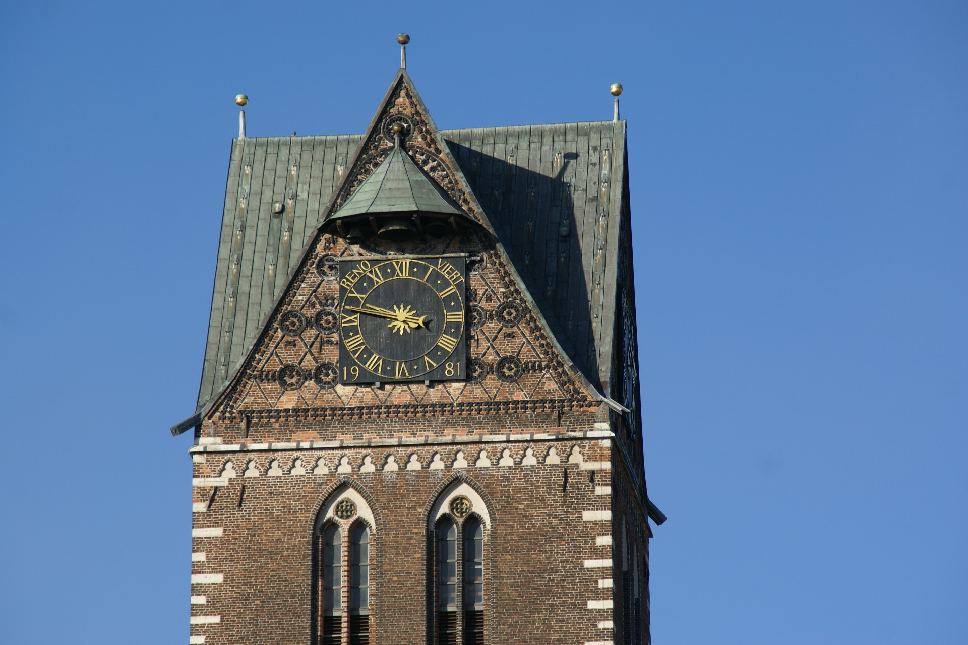 Tower and clock of the Marienkirche (St. Mary Church) in Wismar, Germany